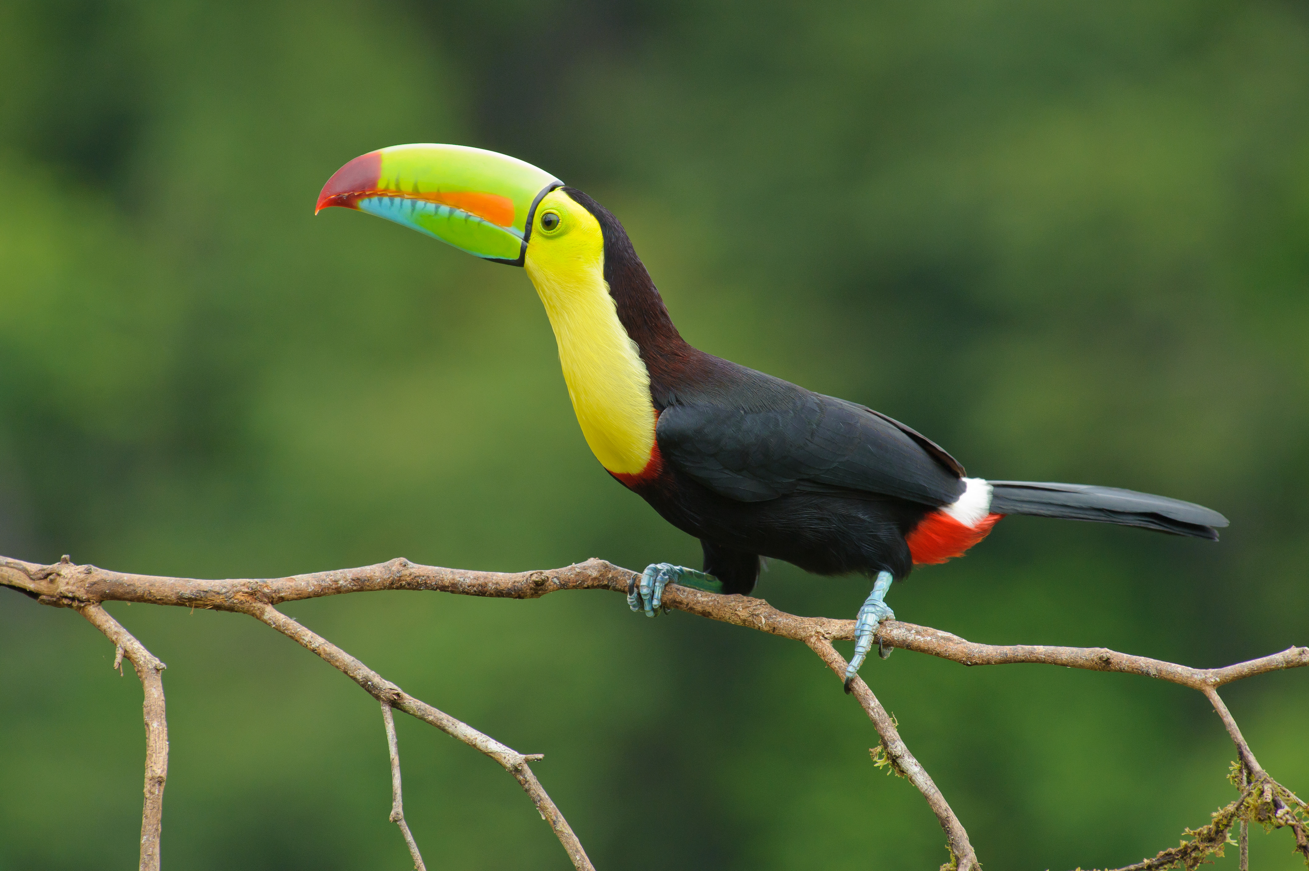 Keel-billed Toucan (Ramphastos sulfuratus) in Costa Rica